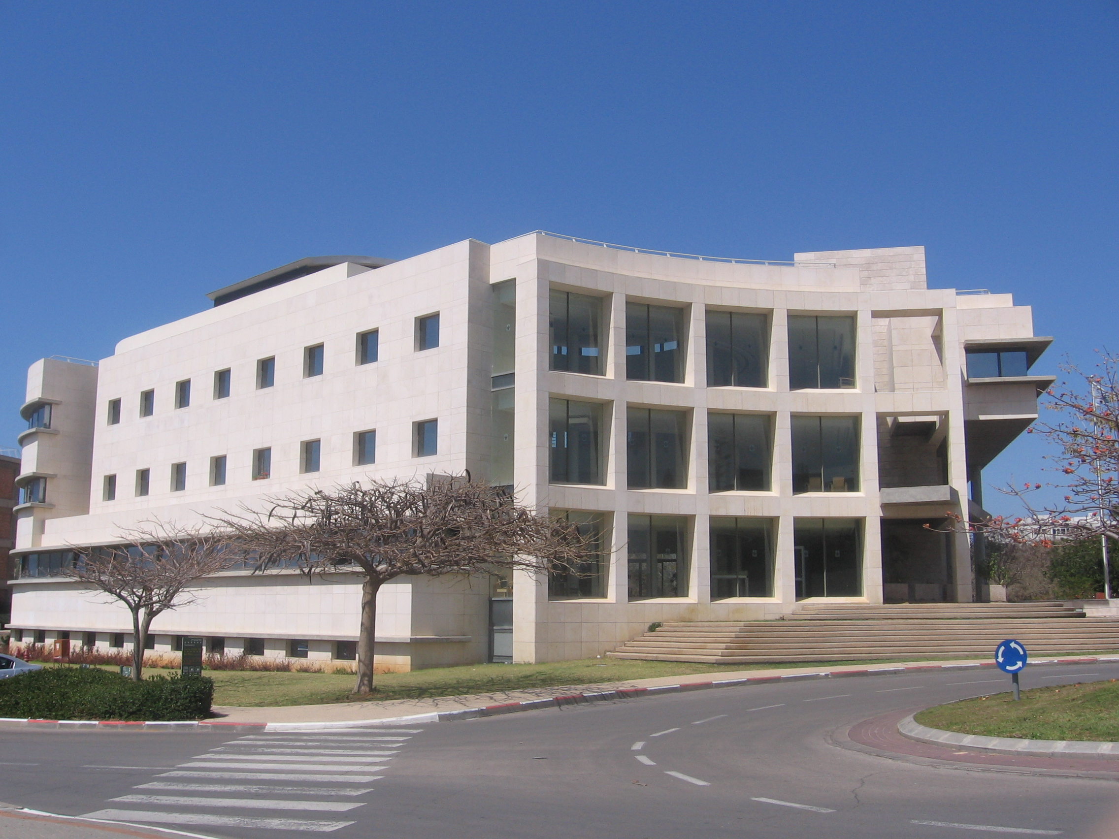 Tel Aviv University (TAU) senate building.